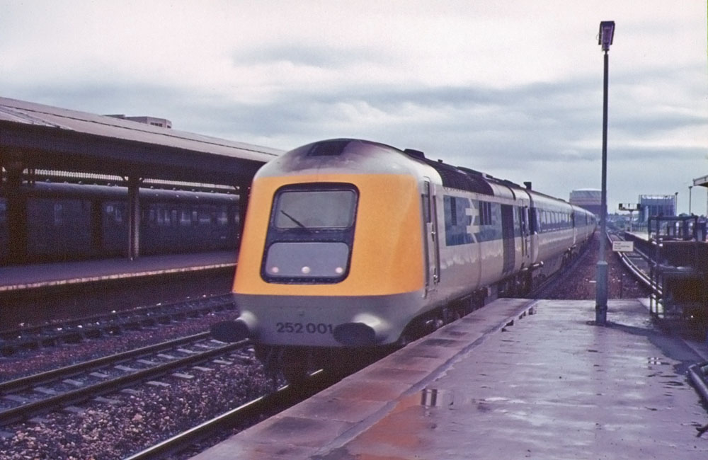 252 001 arriving at Reading, 1975.